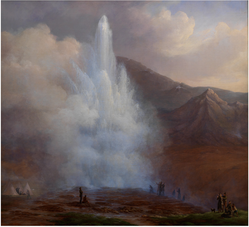 "Store Geysir på Island under eruptionen i året 1834", painting by German-Danish artist Frederk Theodor Kloss, oil on canvas, 173 by 194 cm. Statens Museum for Kunst.